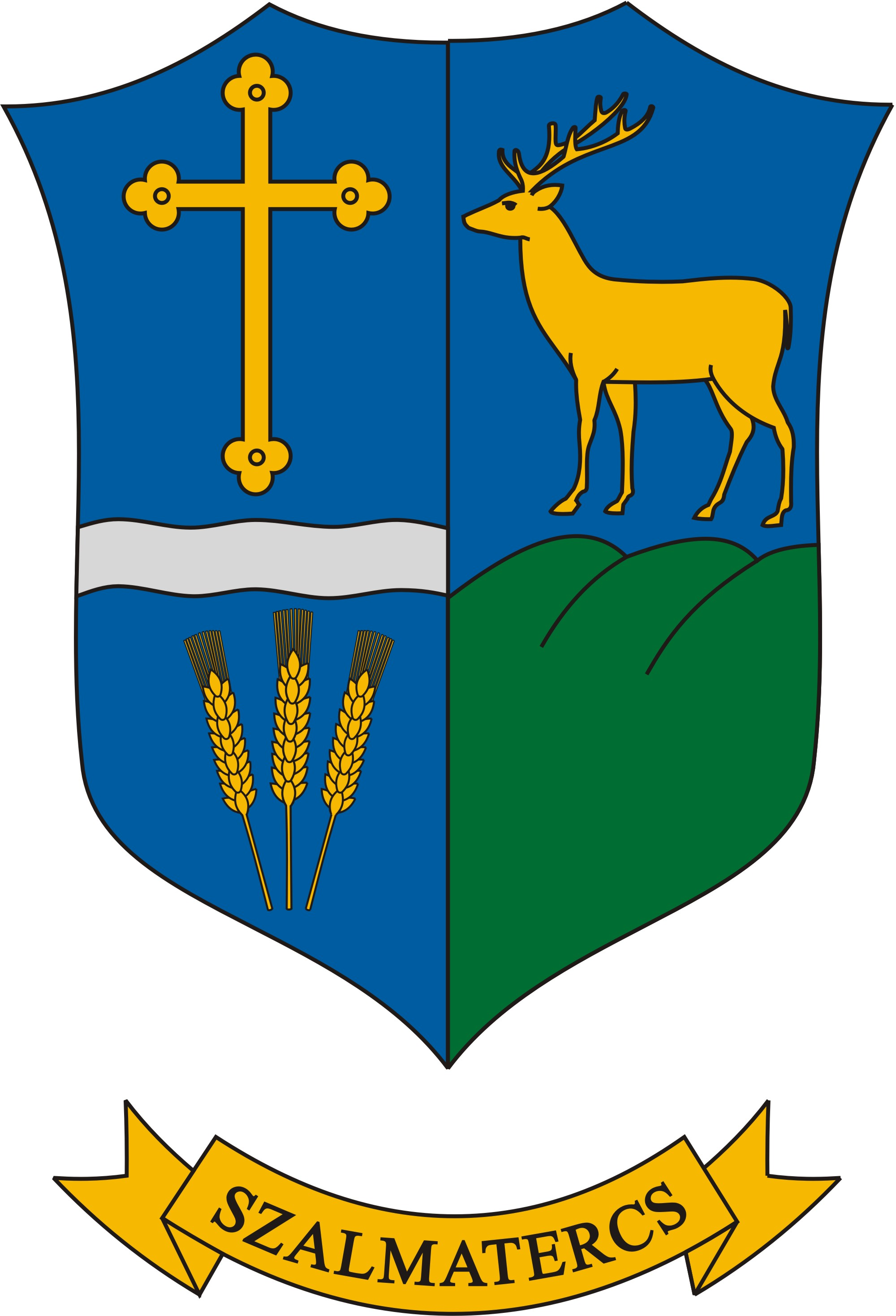 Coat of arms of Szalmatercs, Hungary